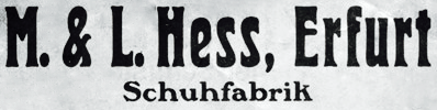 1926: Headline of a contemporary commercial print by shoe factory M. & L. Hess of Erfurt, Thuringia, Germany. M. & L. Hess stands for the two founders Maier Hess and Louis Hess. The latter died in 1915.